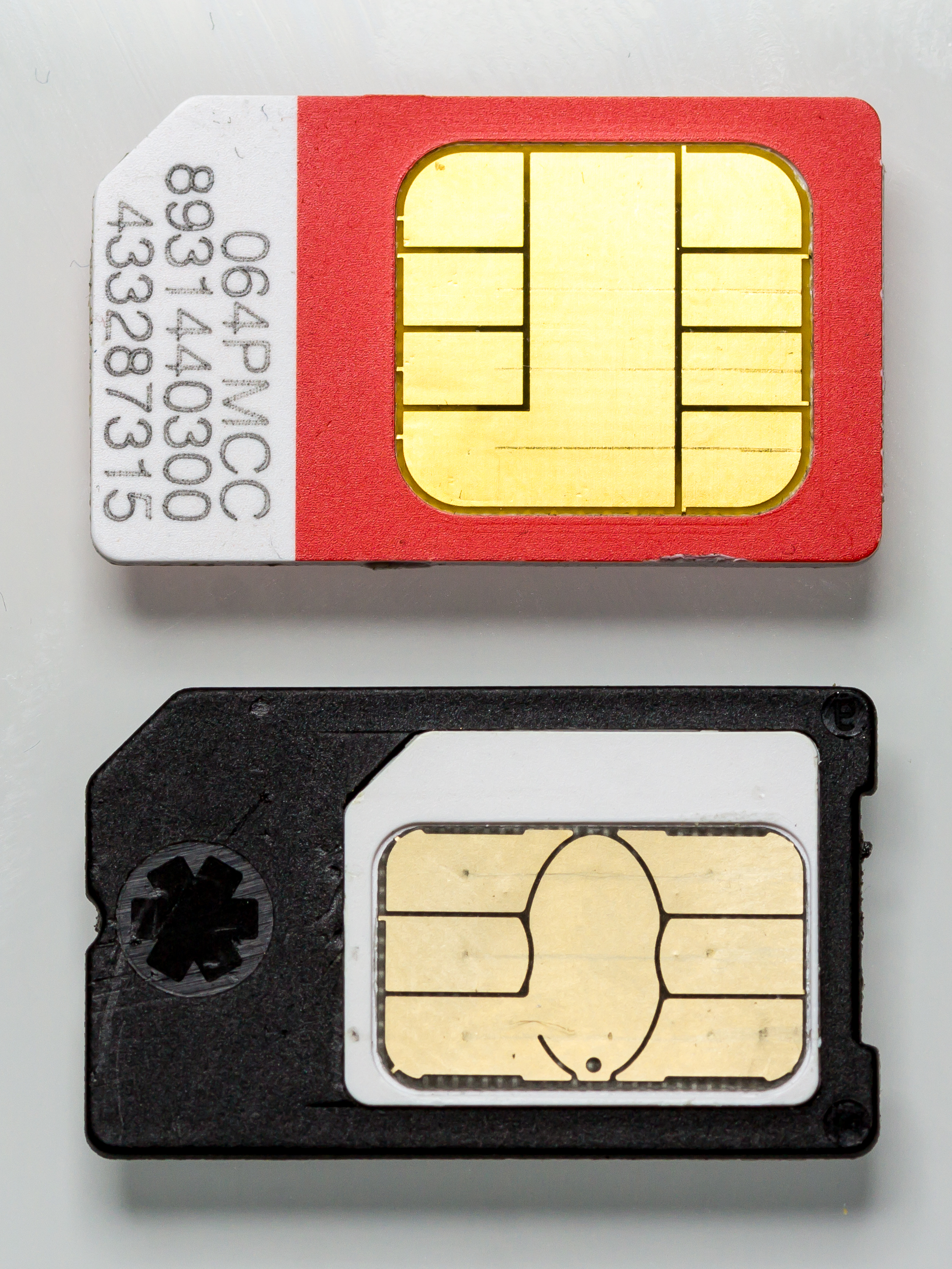 Mini SIM card and a Micro SIM card in a Mini SIM card adapter